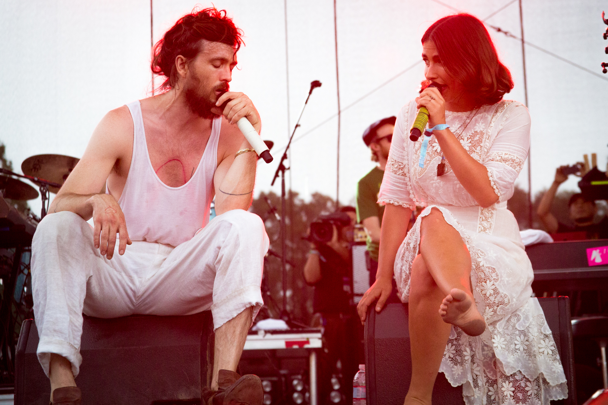 Edward Sharpe and the Magnetic Zeroes